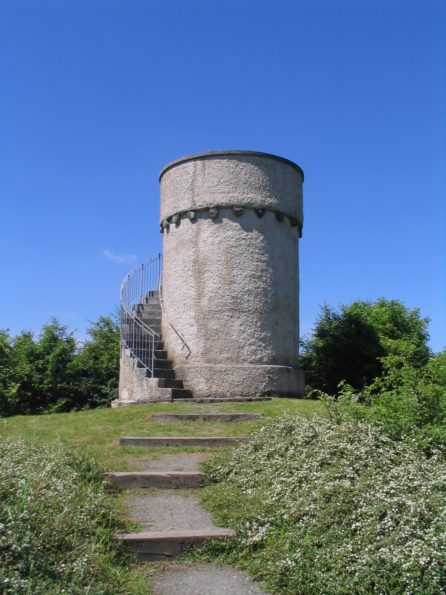 Viewe tower on Altenberg (442 m) near Hohenahr, Hesse, Germany